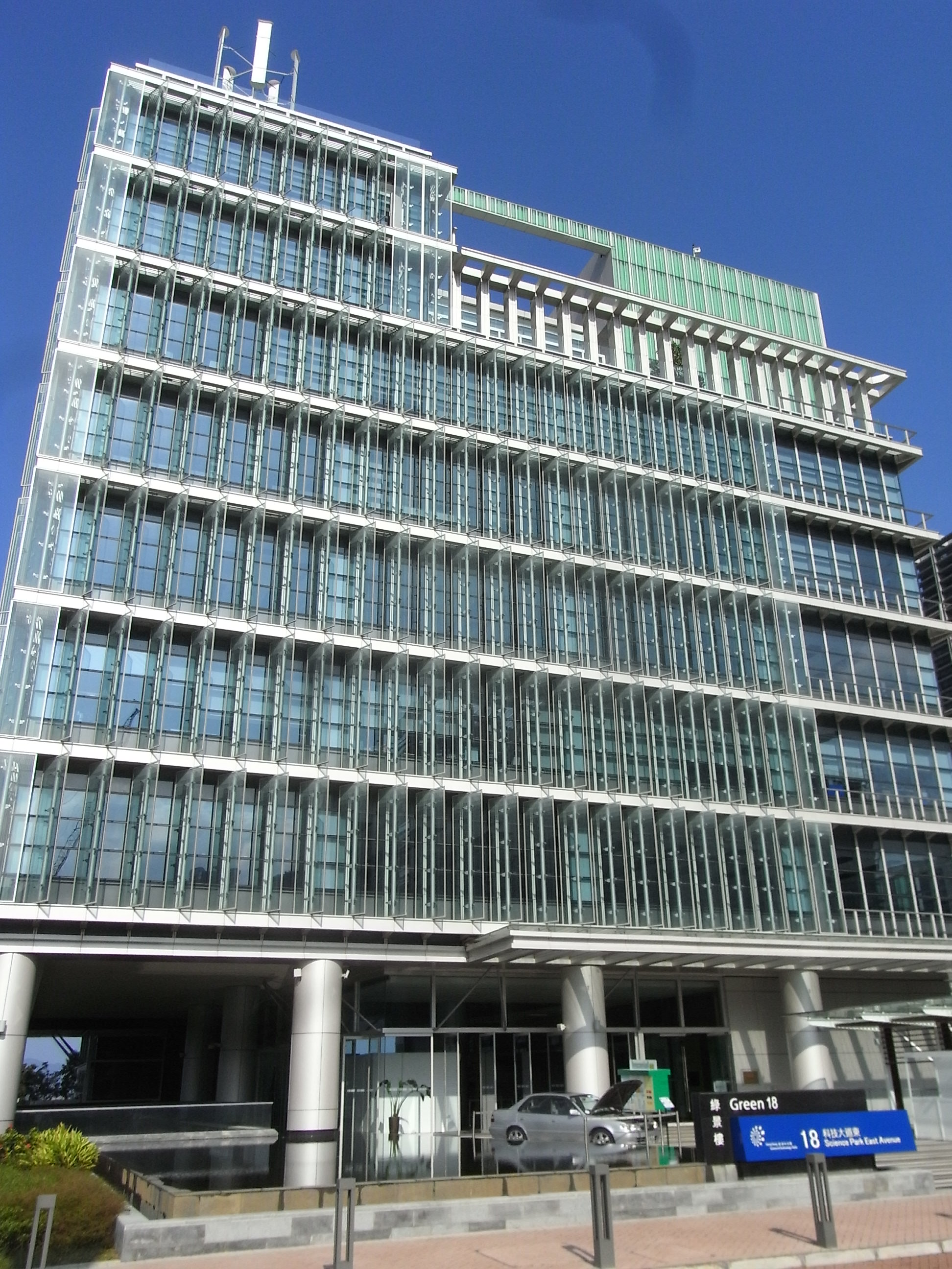 大埔區 香港科學園, Green 18, Science Park, No.18 Science Park East Avenue, Pak Shek Kok, Hong Kong